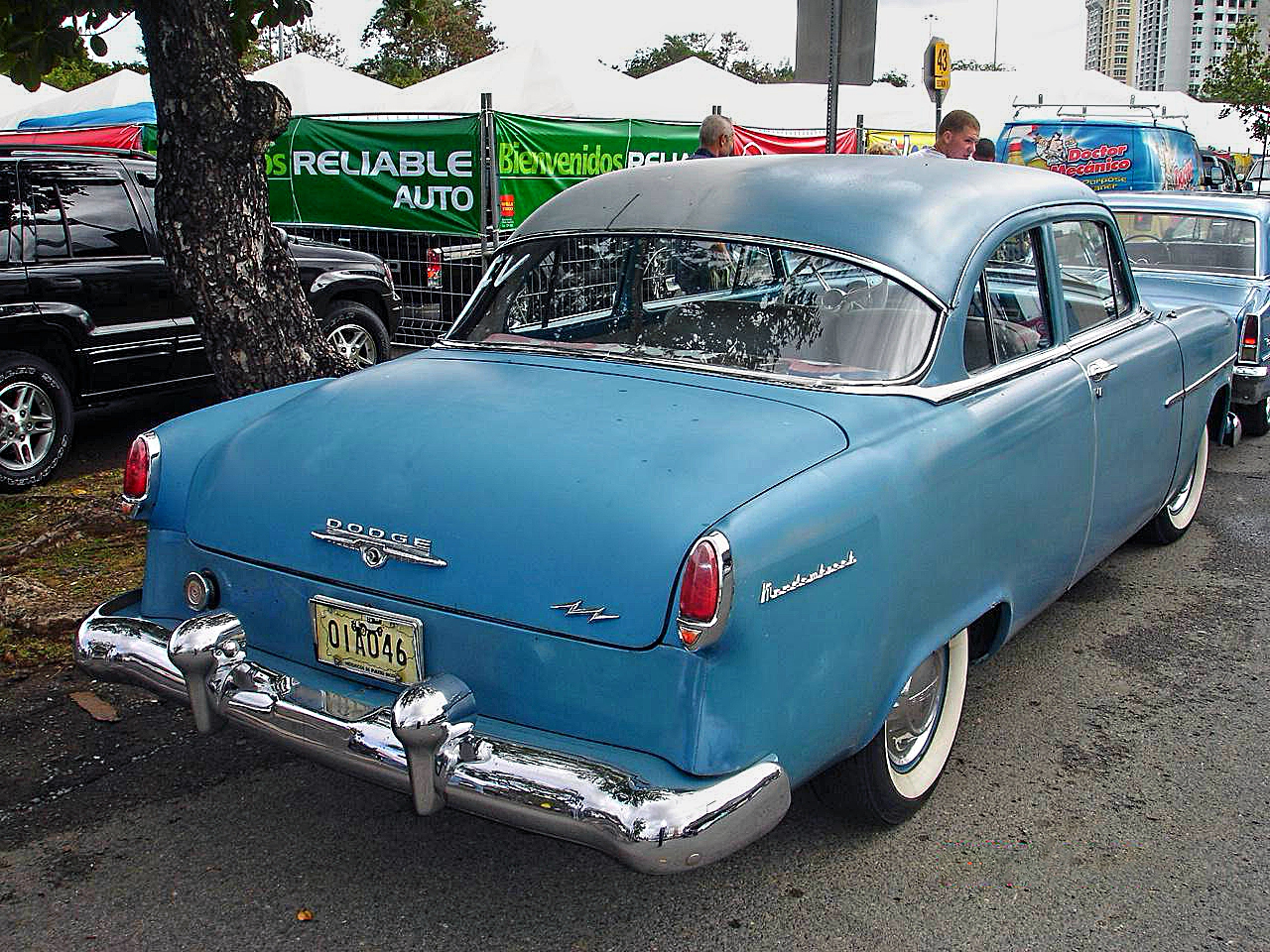 Puerto Rico Auto Show 2008 TDelCoro